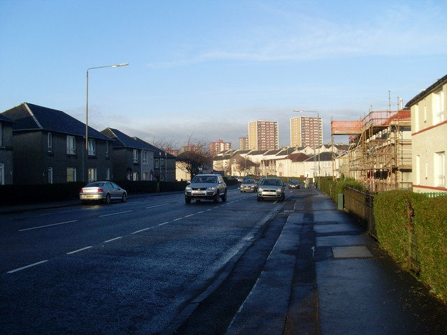 Westmuir Place Looking towards the Prospecthill flats in Toryglen.